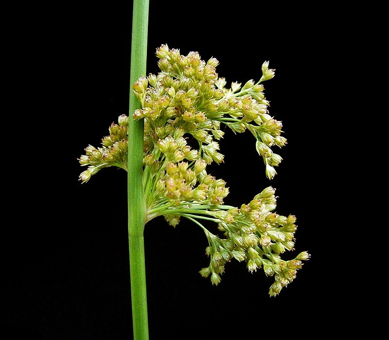 Juncus effusus